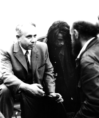 Hans Rookmaker, Dutch scientist